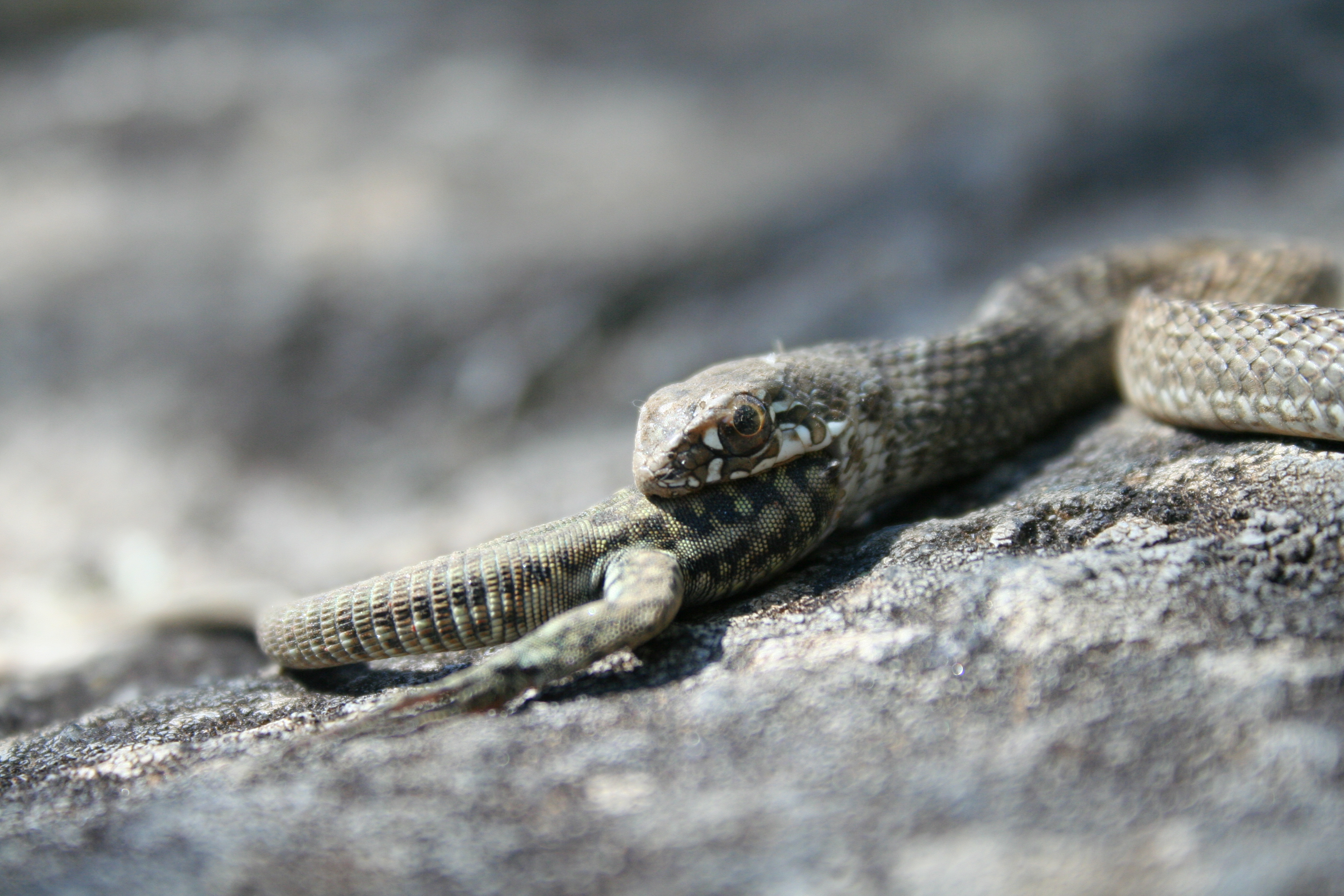 Montpellier snake feeding on a lizard.